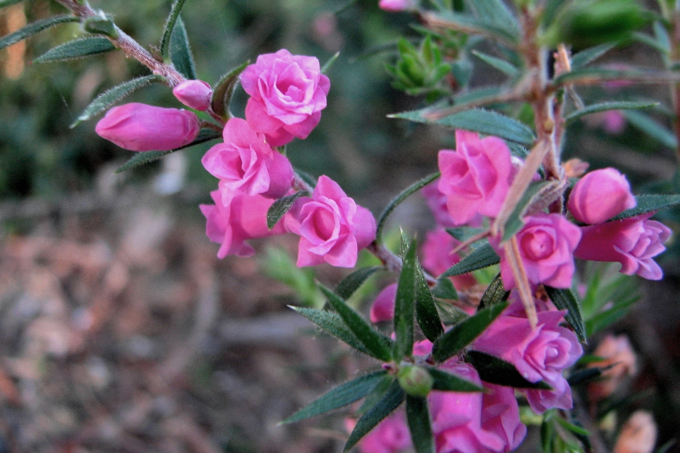 A pink double-flowered form of Epacris impressa Maranoa Gardens, Balwyn, Victoria, Australia. This is labelled as Epacris impressa var. grandiflora 'Double Pink', but I don't think that var.grandiflora is correct for this